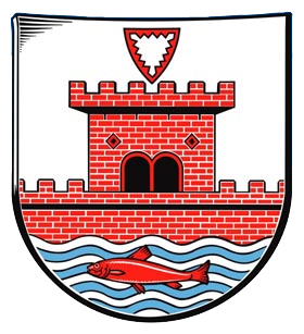 Coat of arms of Plön Blasonierung: In Silber über abwechselnd silbernen und blauen Wellen, in denen ein roter Fisch schwimmt, eine durchgehende, niedrige rote Zinnenmauer aus Ziegeln, besetzt mit einem gedrungenen roten Zinnenturm mit zwei schwarzen Torbögen; über dem Turm schwebend das holsteinische Wappen (in Rot das silberne Nesselblatt).